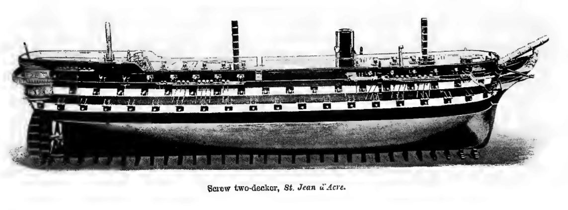 Screw Two-decker St. Jean d'Acre